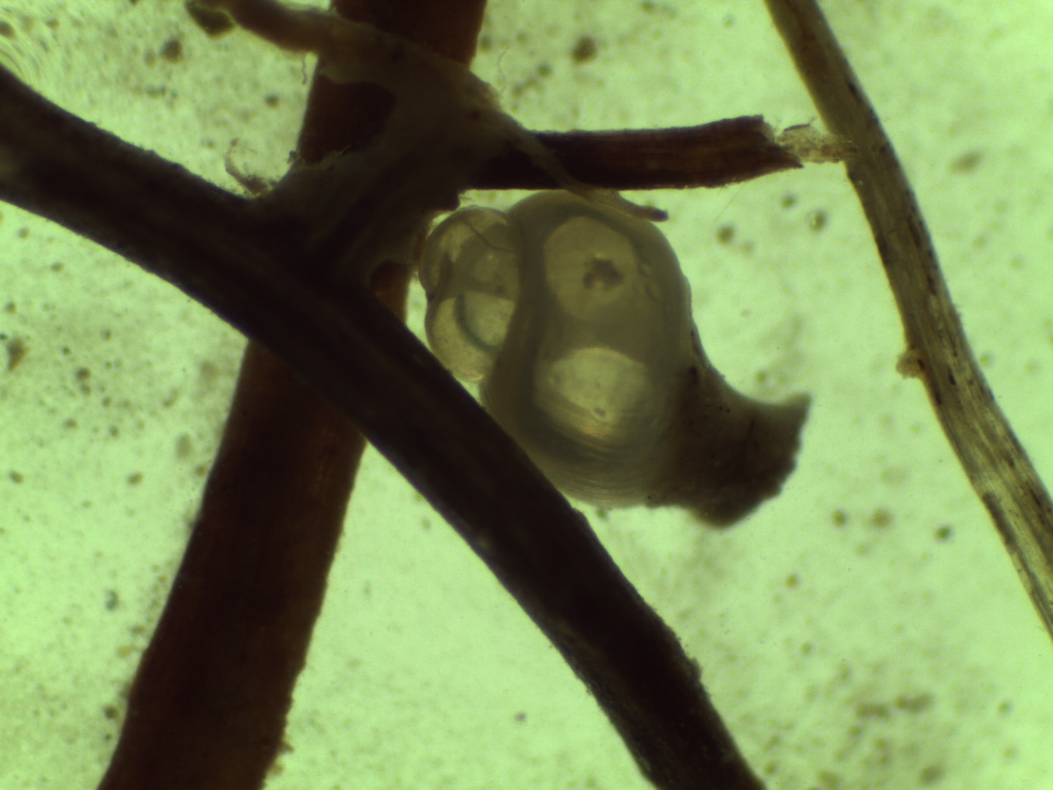 35x zoom micro photo of Gastropoda from Holocene Sediments of Amuq Valley, SSE Turkey